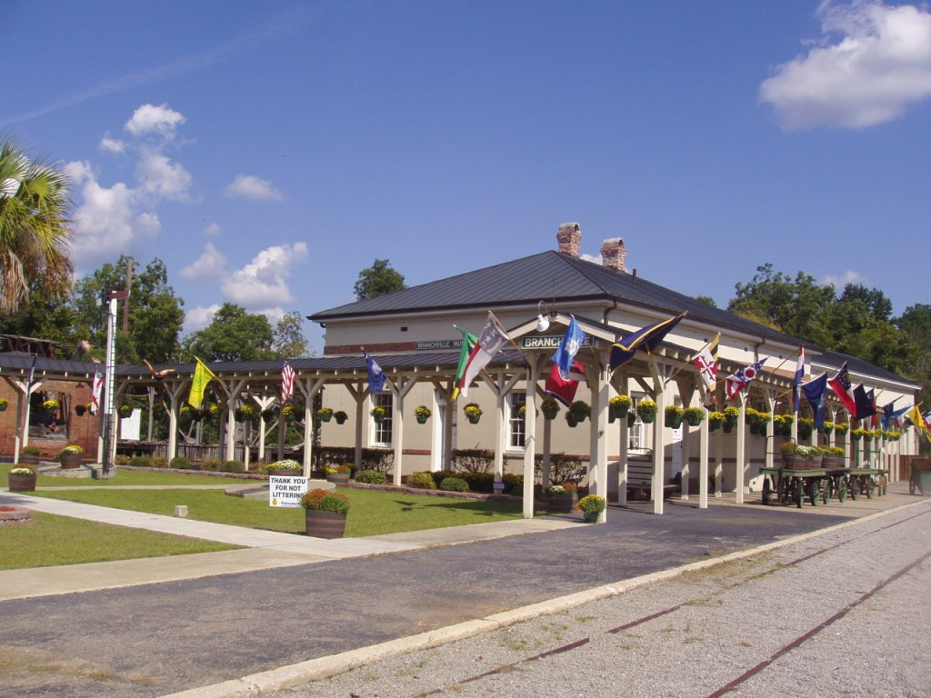 Branchville SC Dpeot in 2007 during Raylrode Daze Branchville, SC